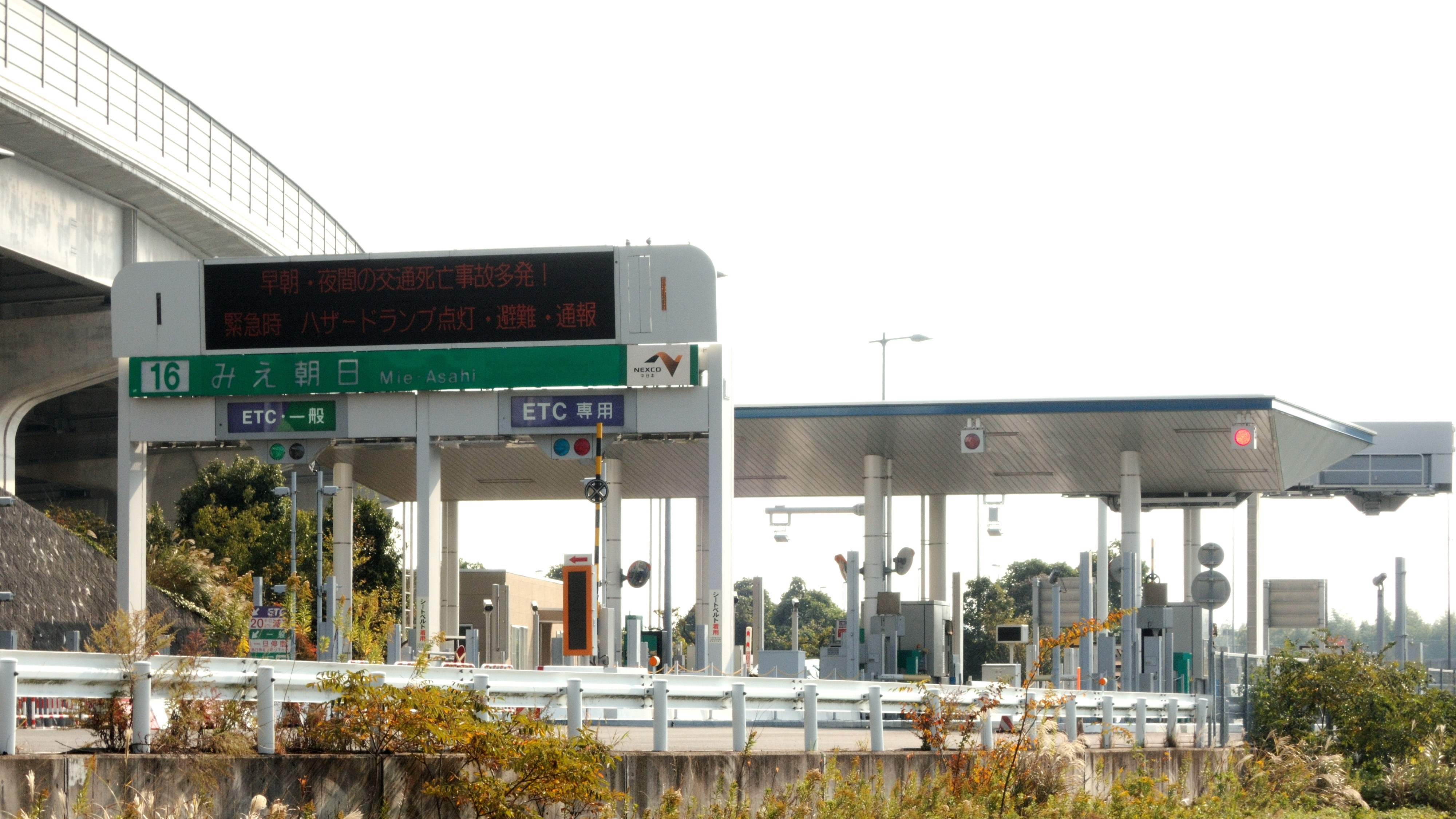 Mie-Asahi Inter Change, Mie Prefecture, Japan